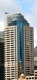 Circular Quay and CBD